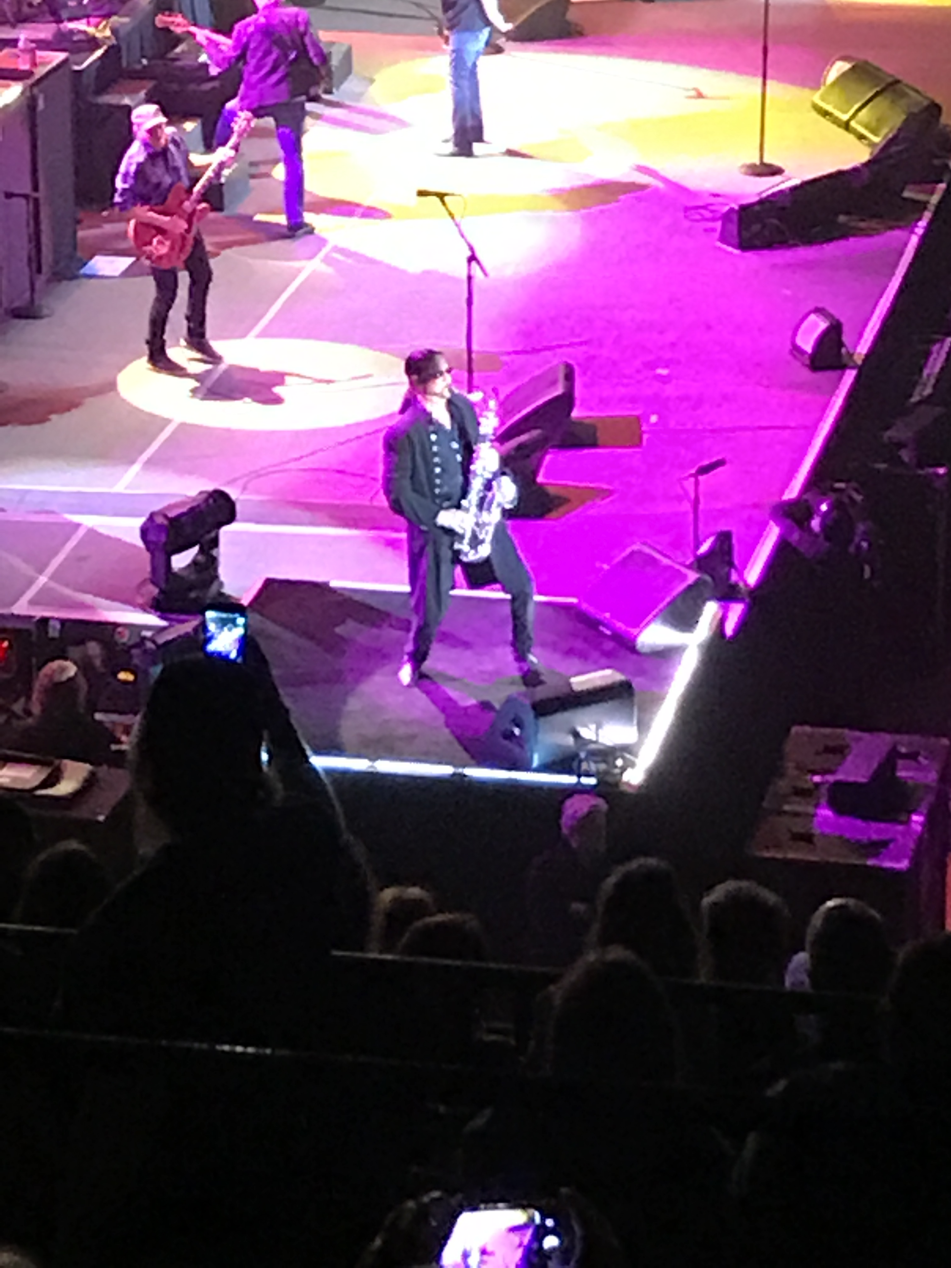 Alto Reed, Bob Seger concert, MetraPark Arena, Billings, Montana, January 29, 2019